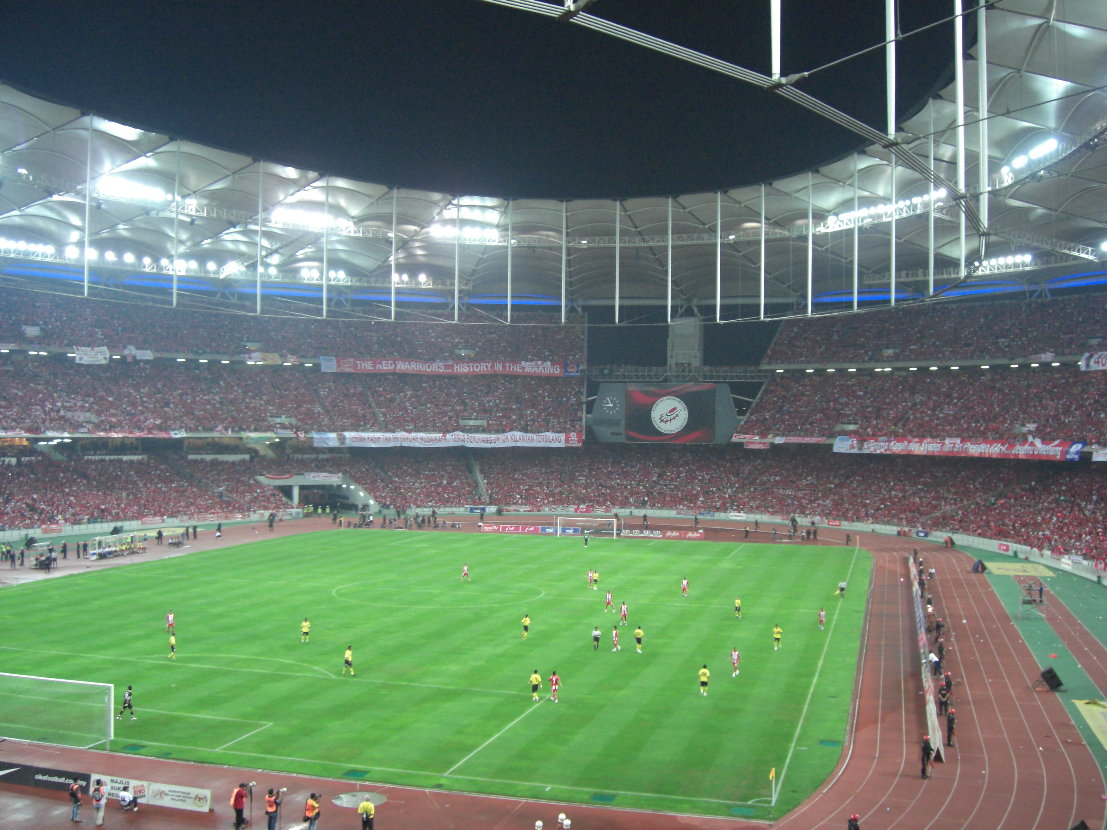 Malaysia Cup final 2009 Kelantan vs. Negeri Sembilan at Stadium Nasional Bukit Jalil.